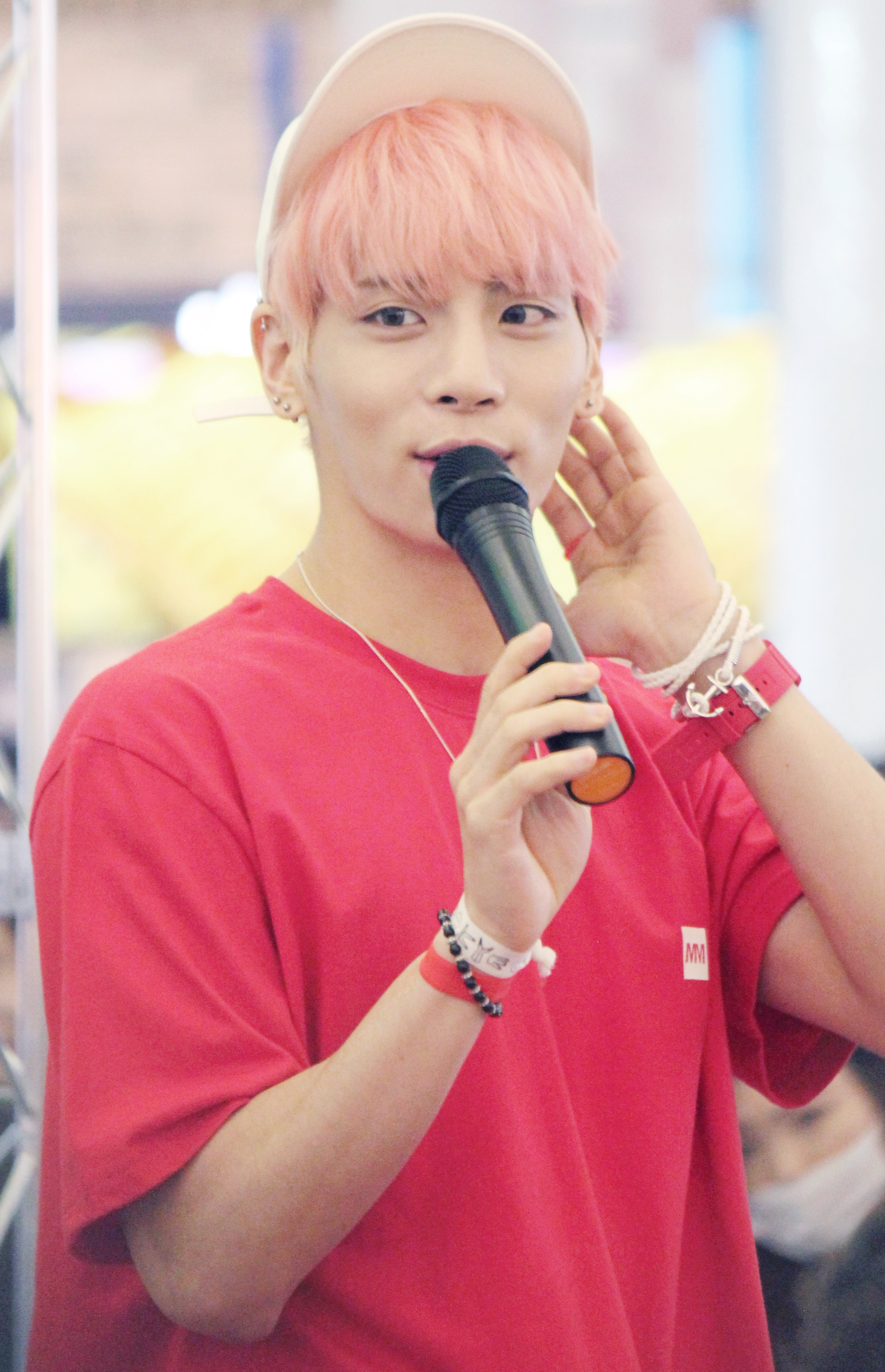 Jonghyun at a fansigning in Busan, on June 6, 2016.